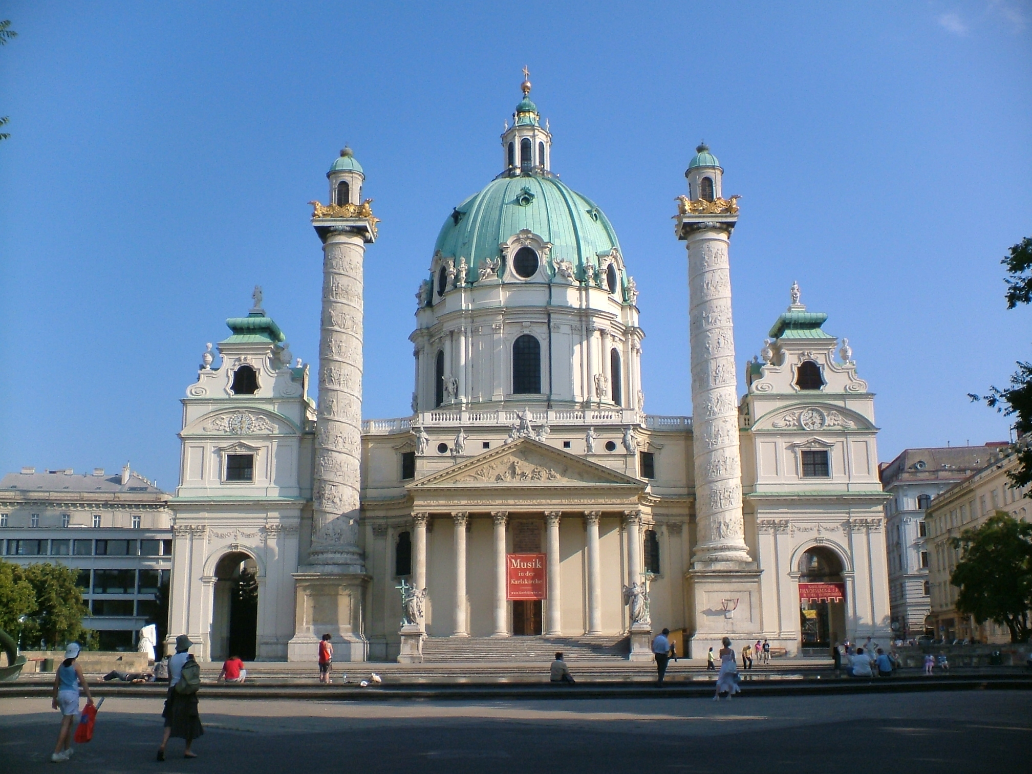 Austria, Vienna, St. Charles's Church